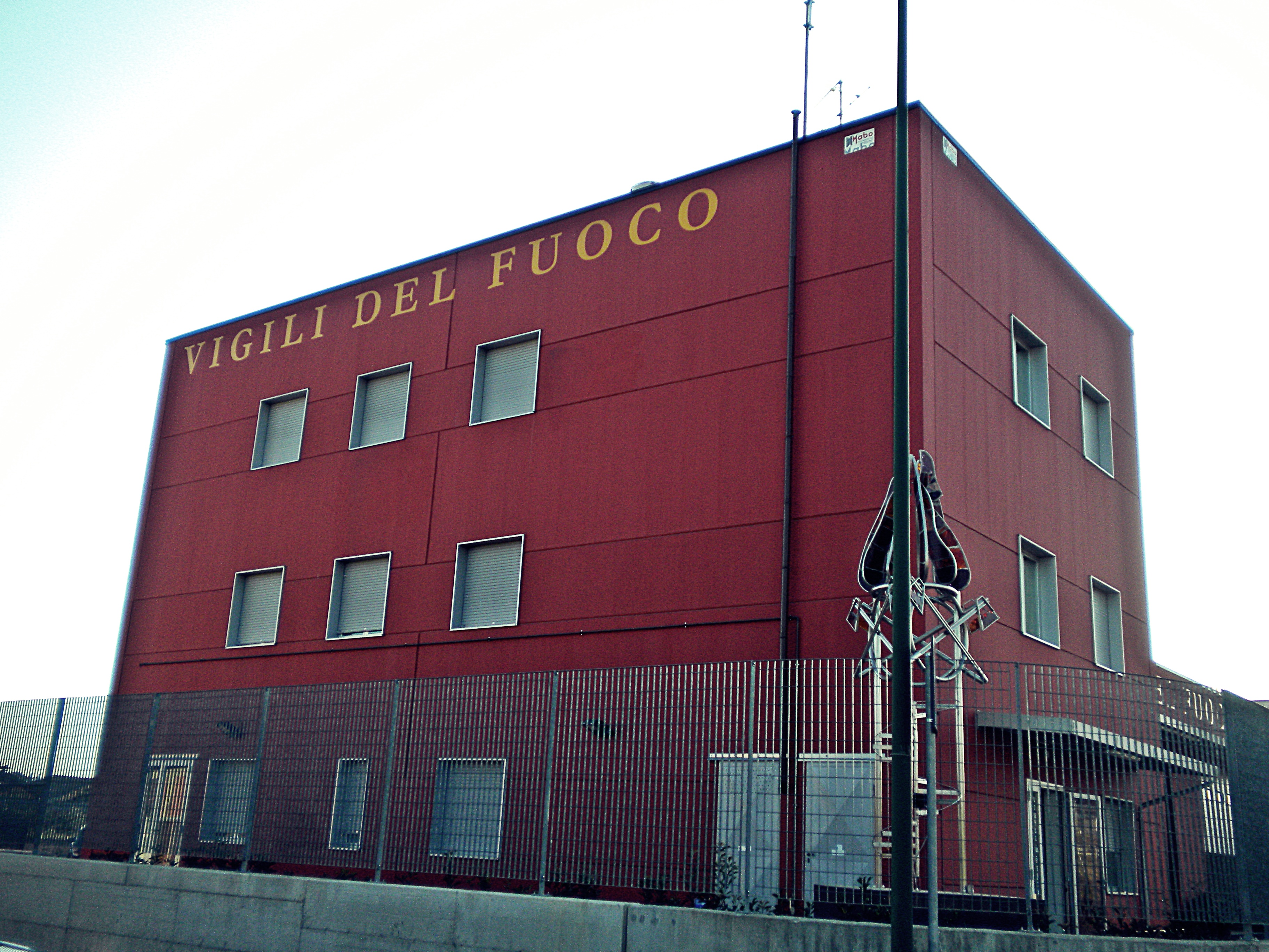 barracks fire